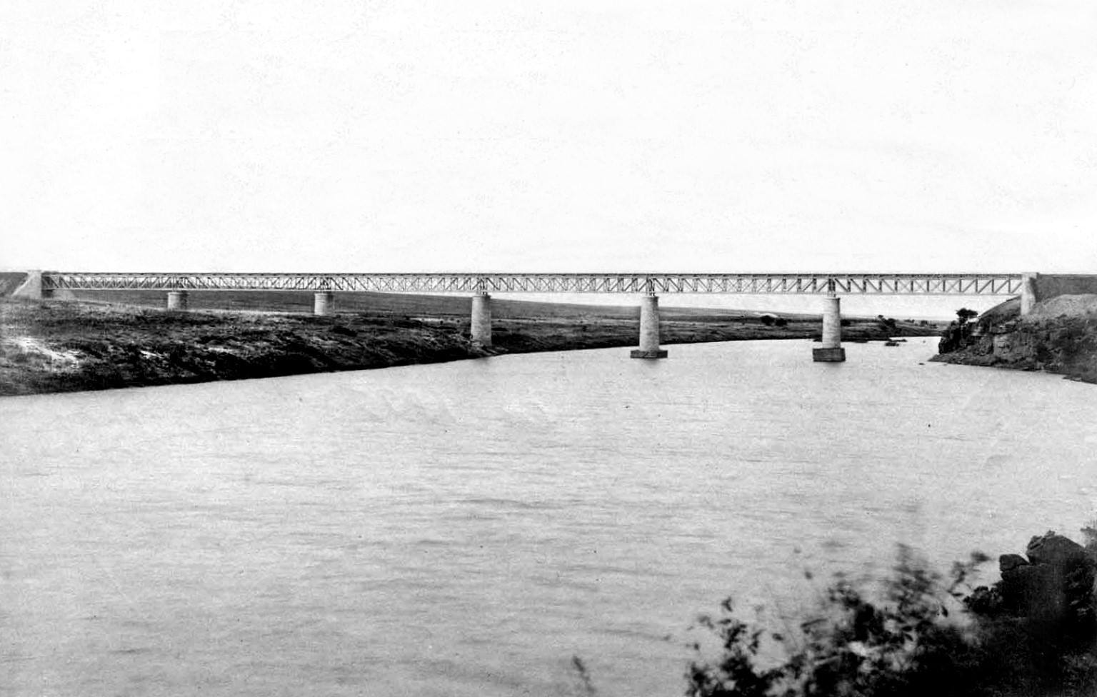 The permanent bridge across the Vaal between the Orange Free State and the South African Republic was opened when the first train crossed it on 5 November 1892 Vaal Triangle History, Chapter 3: The First Bridge over the River Vaal